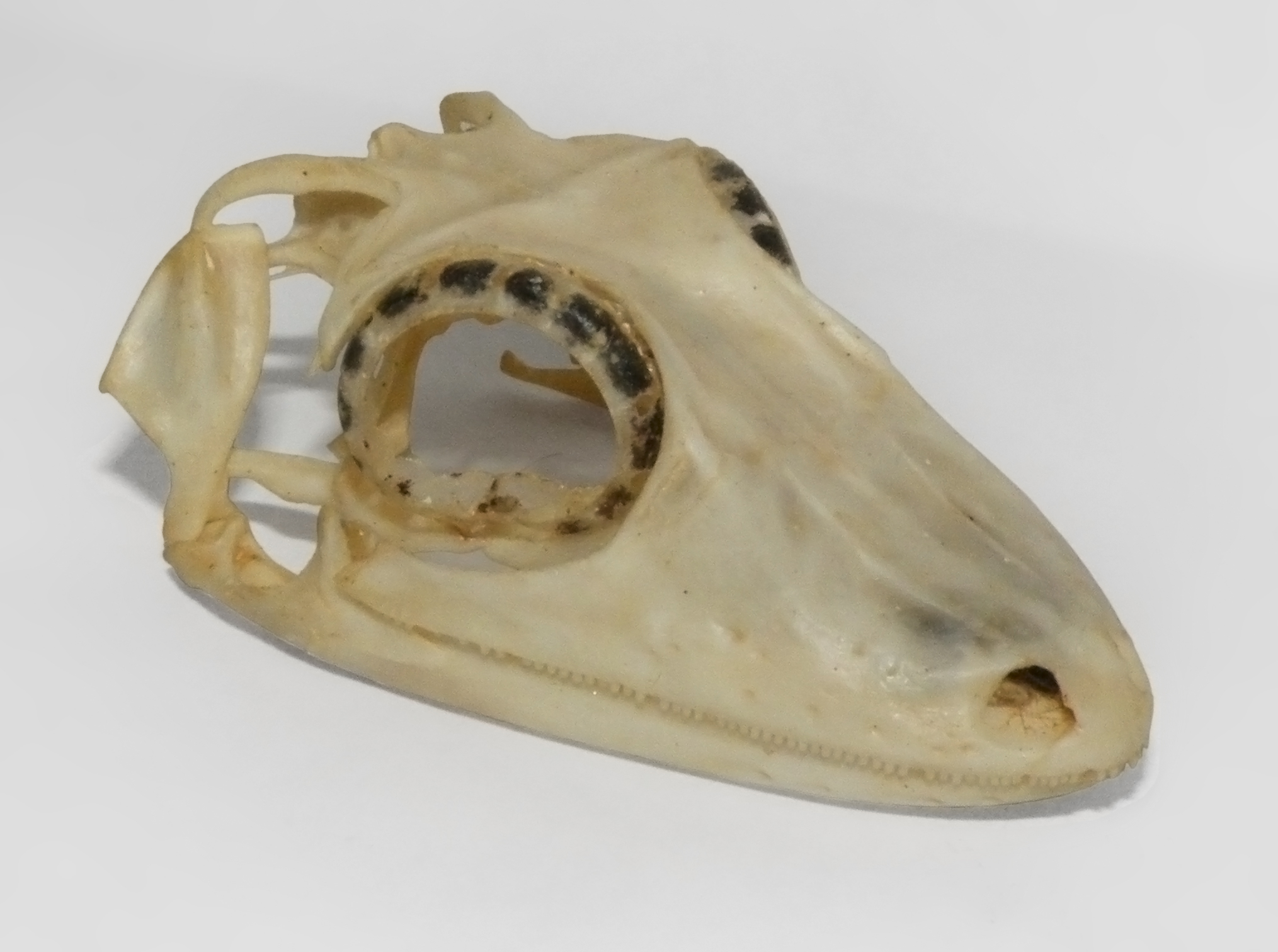 Skull of Uroplatus phantasticus from my personal collection